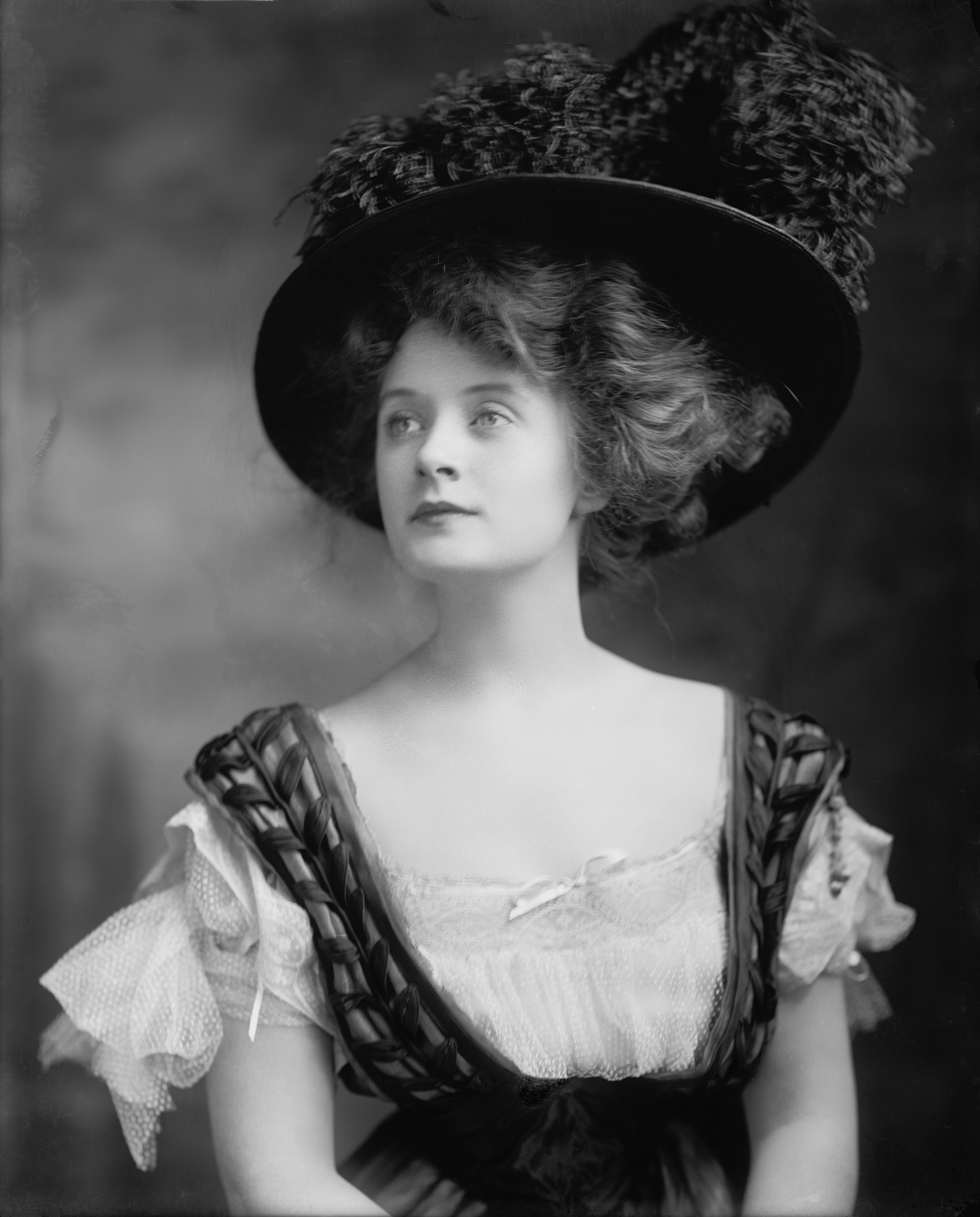 Billie Burke LC-DIG-hec-15826 (digital file from original negative).